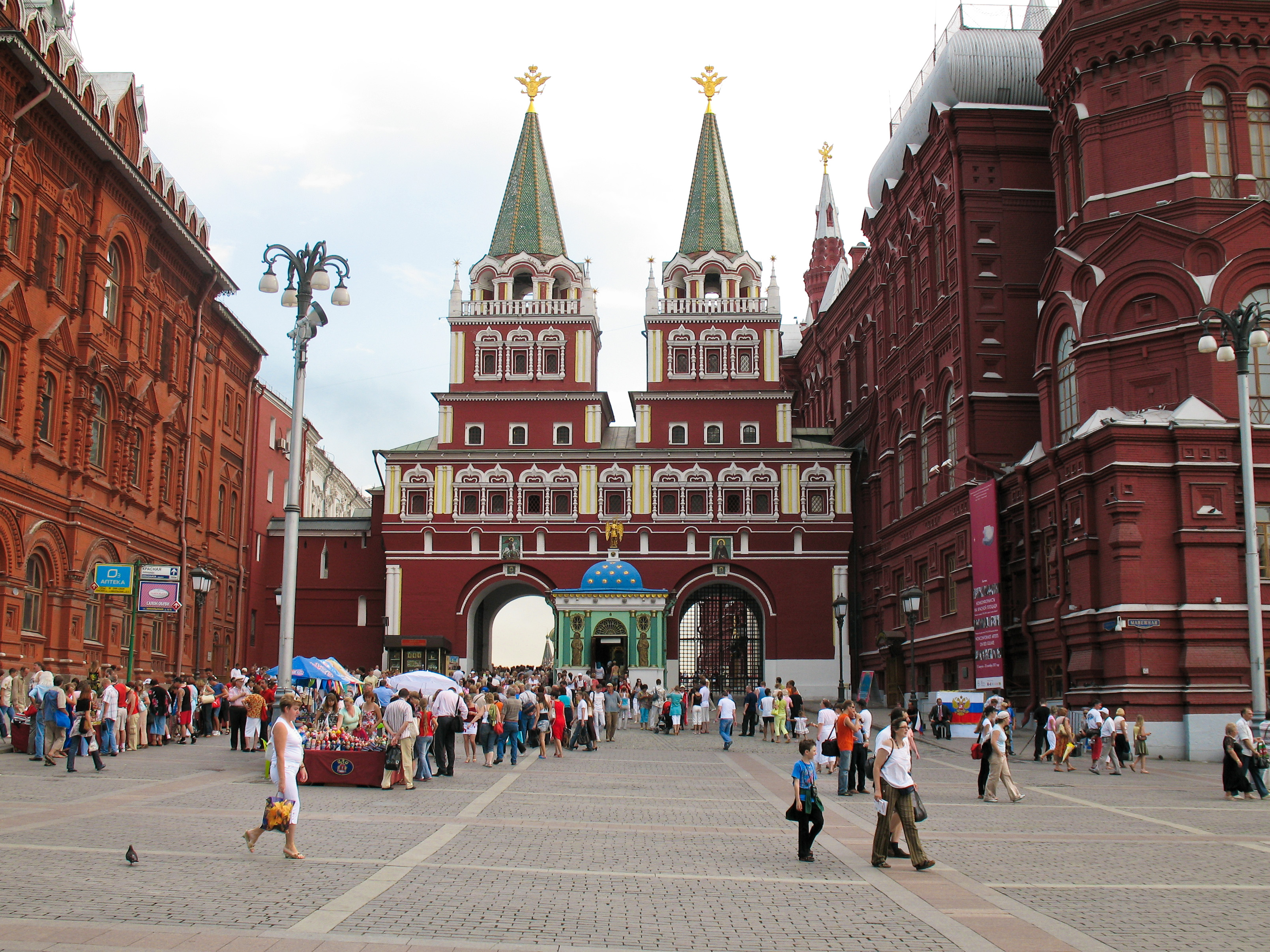 Resurrection Gate, Moscow, Russia